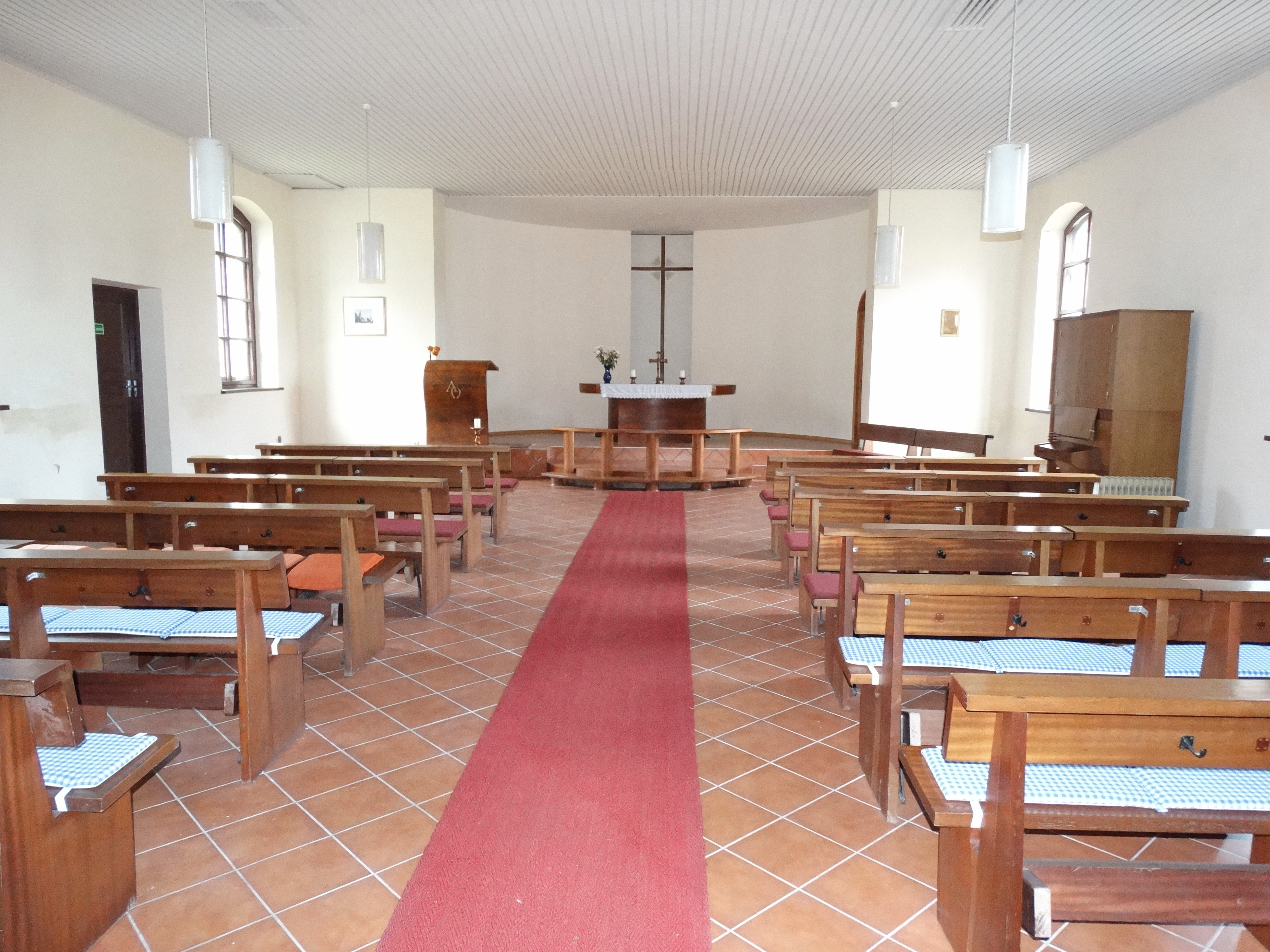 Smalininkai, interior of Evangelical-Lutheran Church, Jurbarkas district, Lithuania